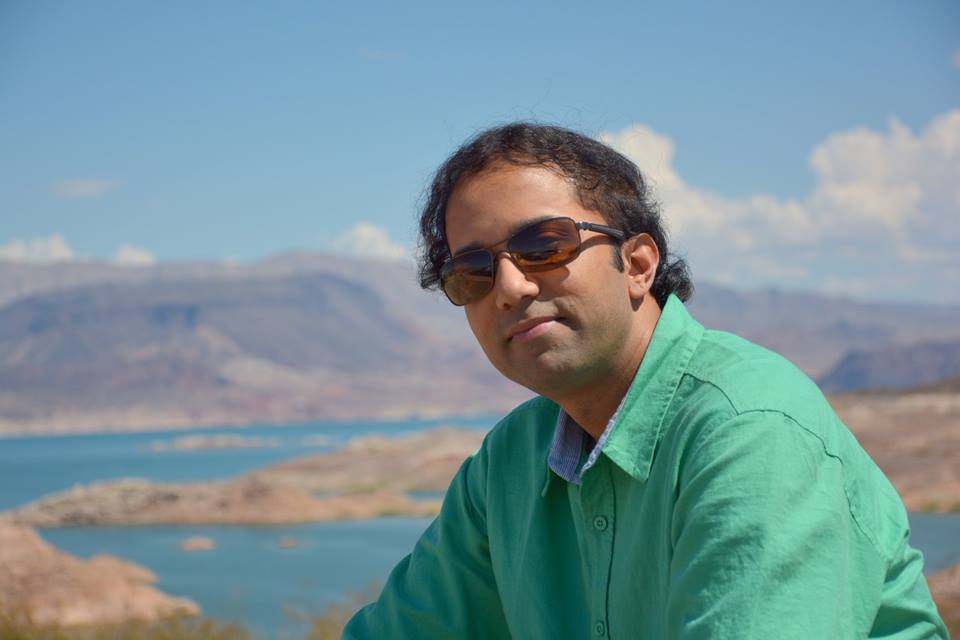 Pic of artist Gaurav Bhatt